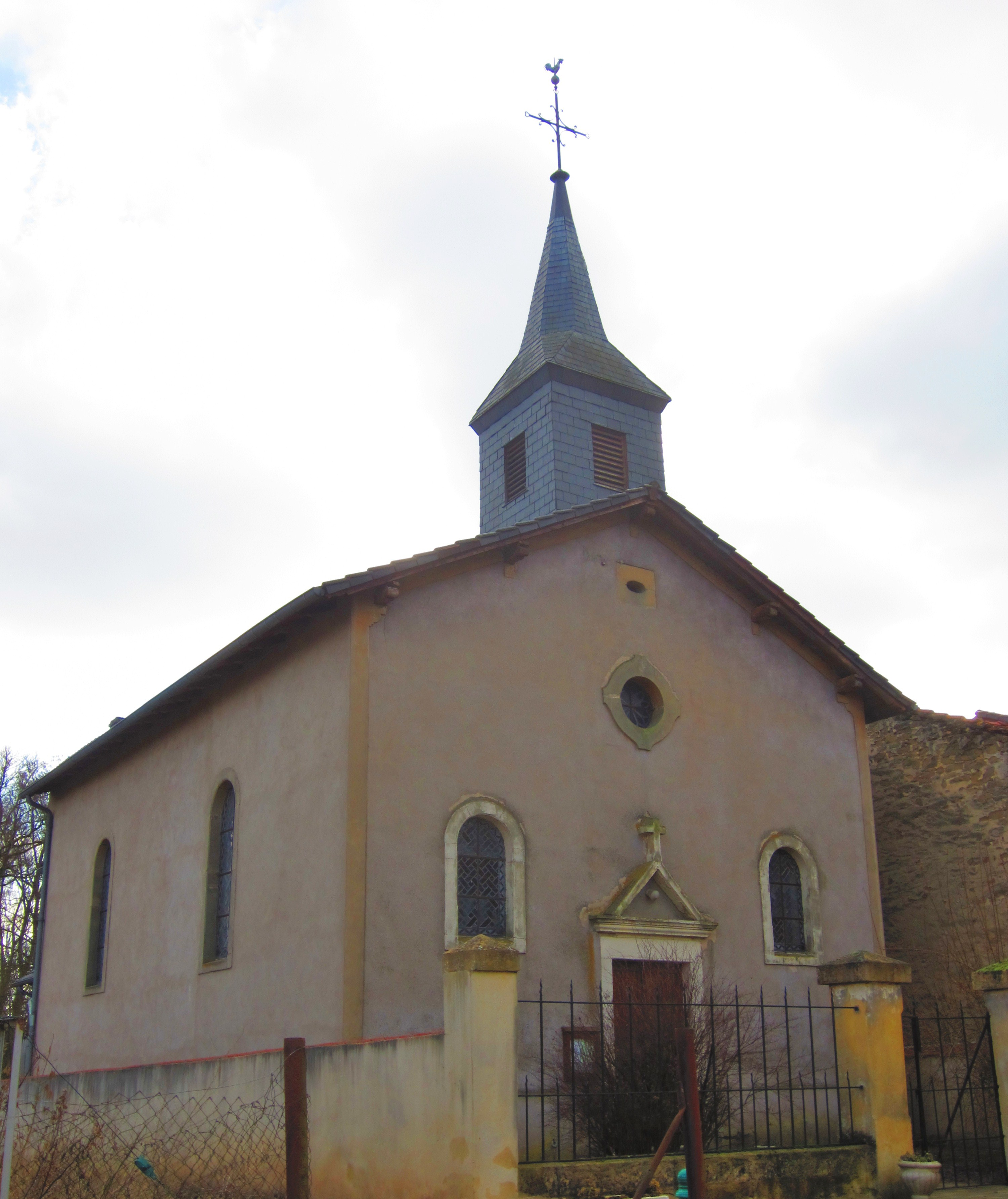 Megange chapel